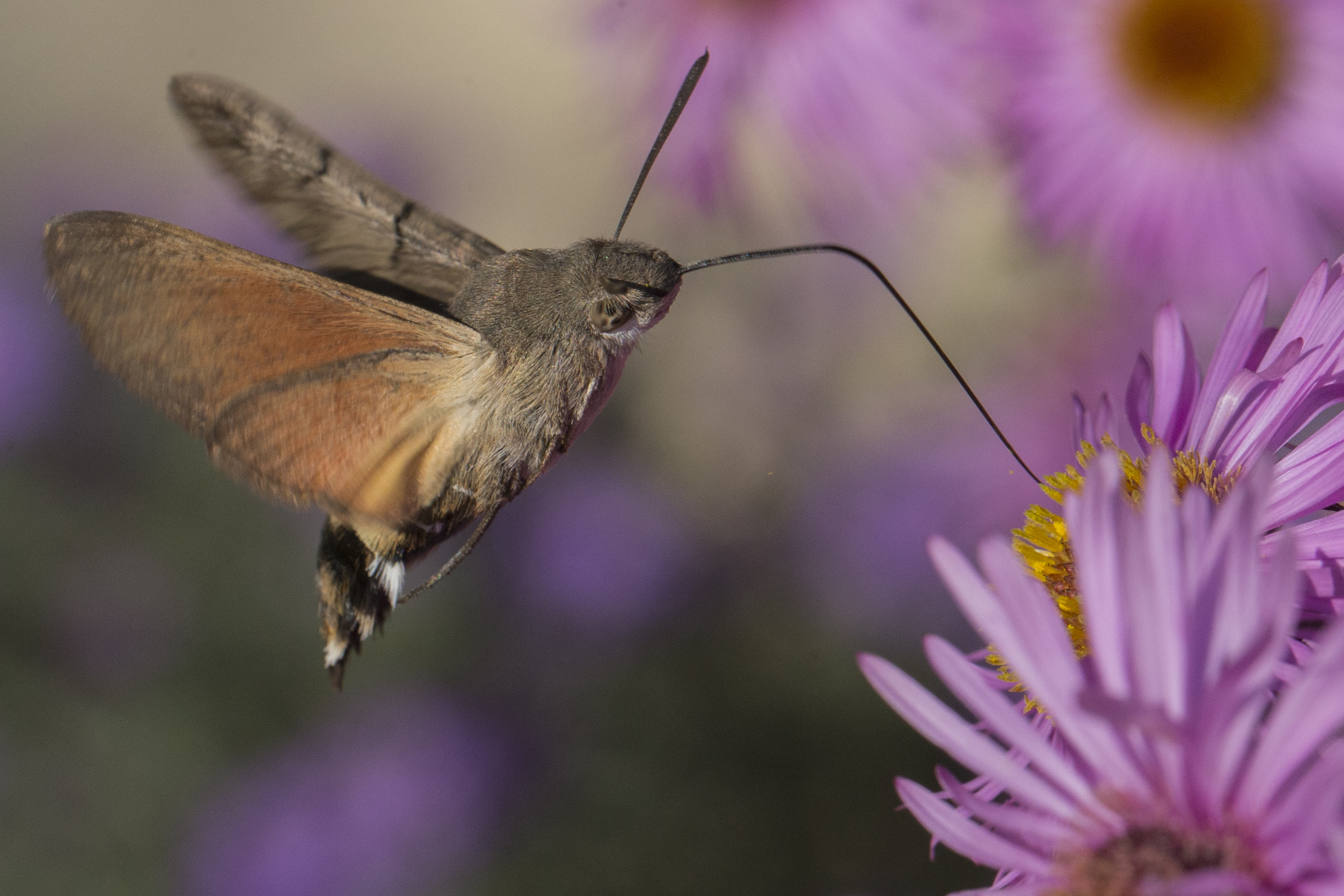 Hummingbird Hawkmoth(Macroglossum stellatarum) and aster flowers, Lodz, Poland